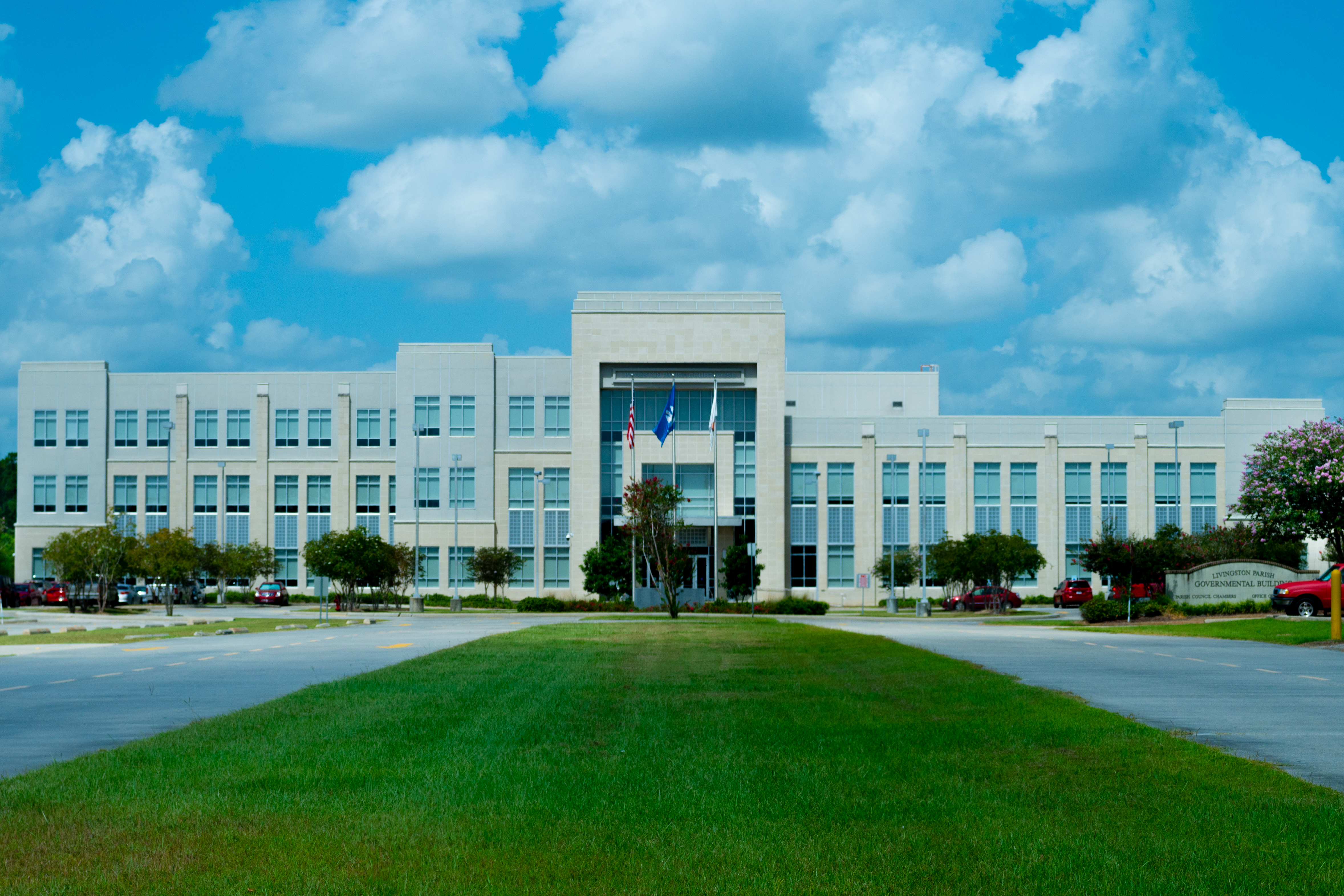 The image was taken looking due east from the center of Government Boulevard. The image is a 9 image composite panorama taken on a Panasonic G7 with an Opteka 35mm lens. The image was taken specifically for use on the Wikimedia Commons.